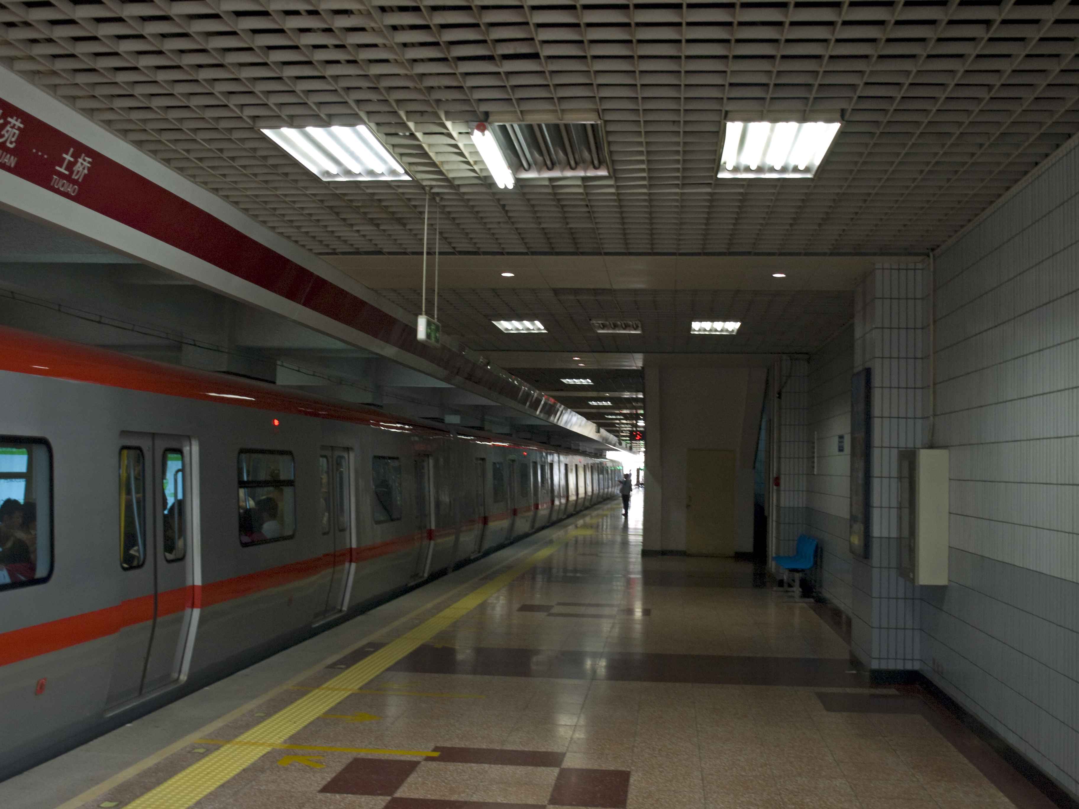 Sihui East station (Batong line), Beijing Subway